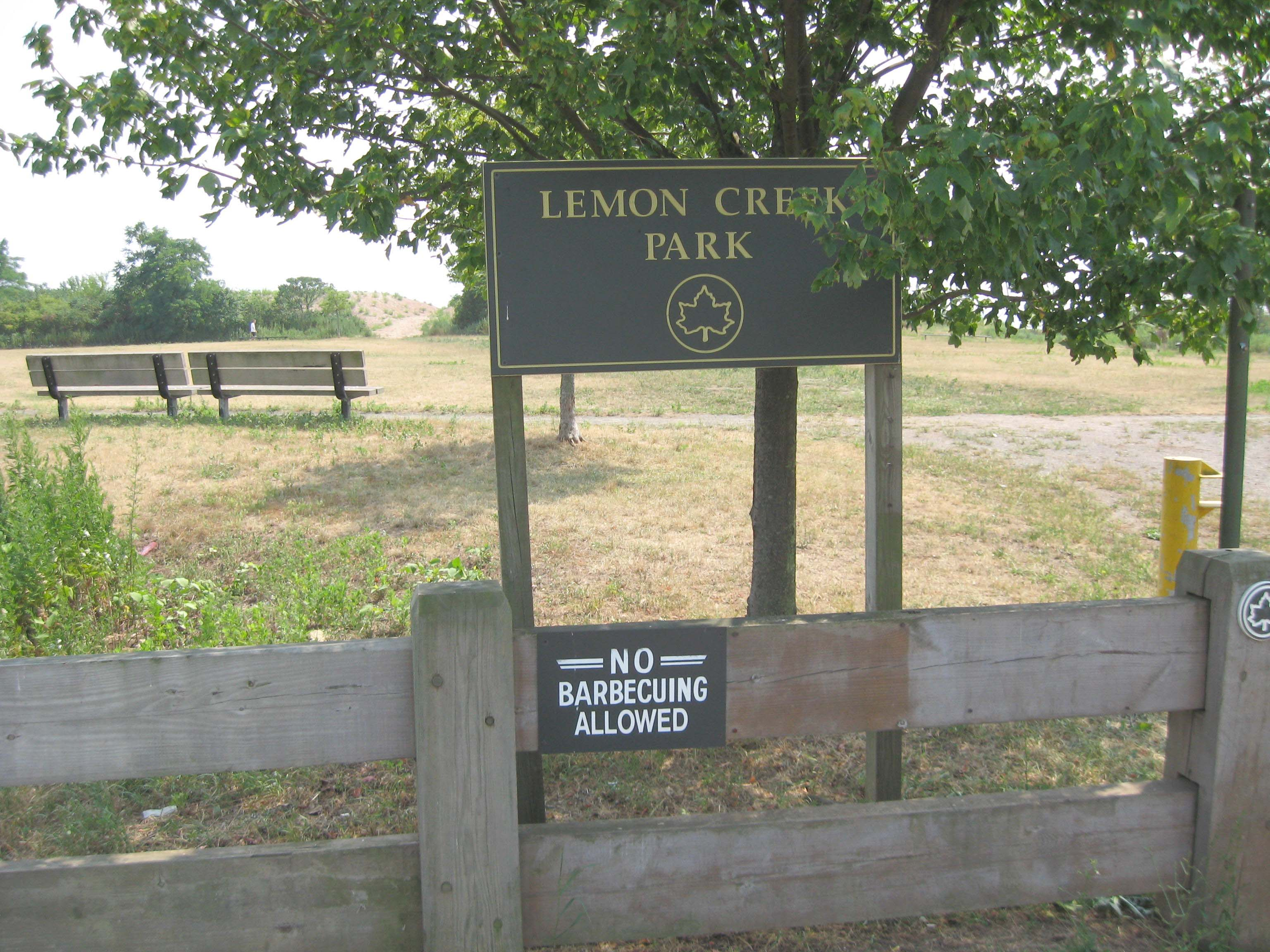 Looking south at sign for Lemon Creek, Staten Island Park on a sunny midday